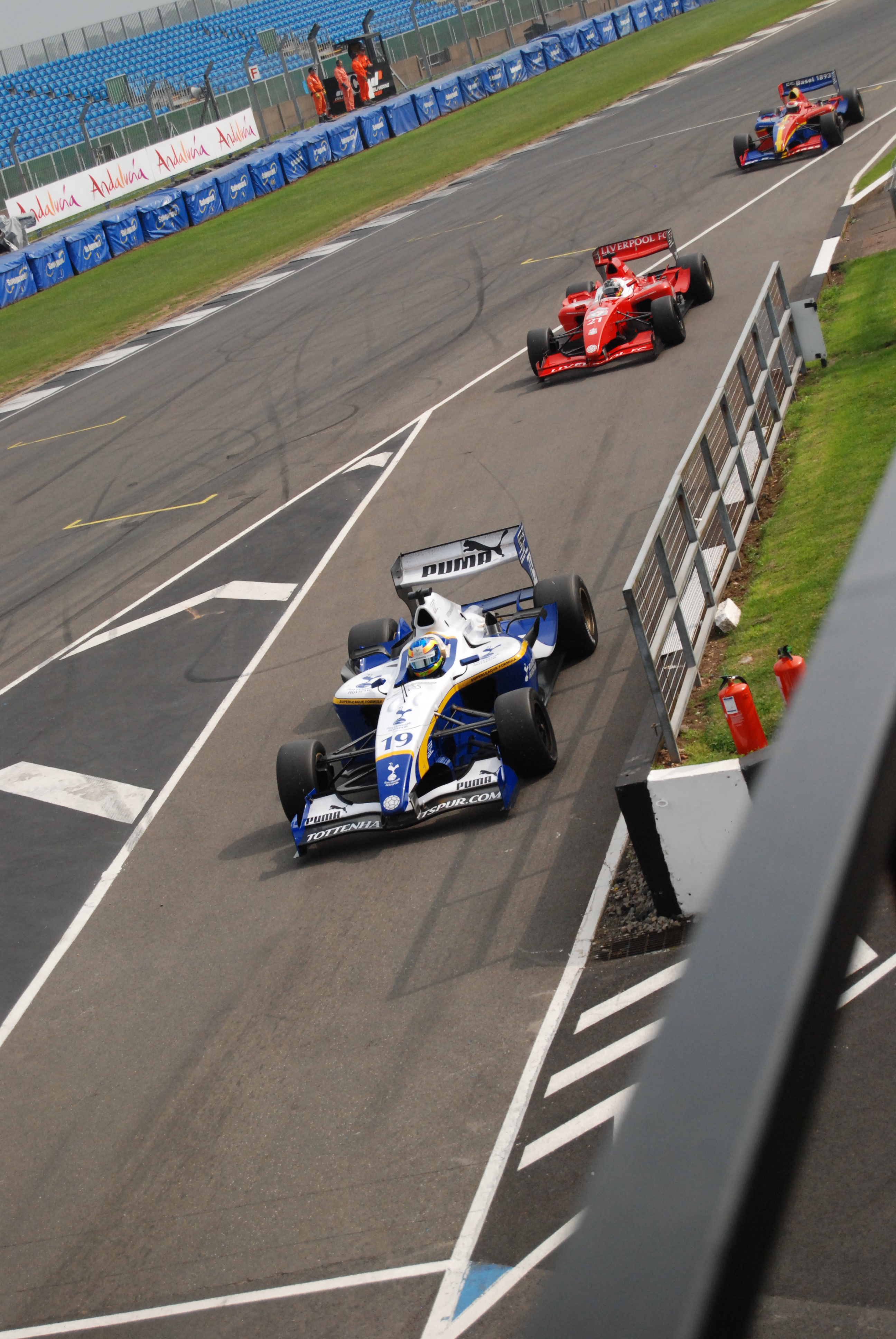 The Superleague Formula cars of Tottenham Hotspur, Liverpool FC and FC Basel enter the pits at Donington Park.